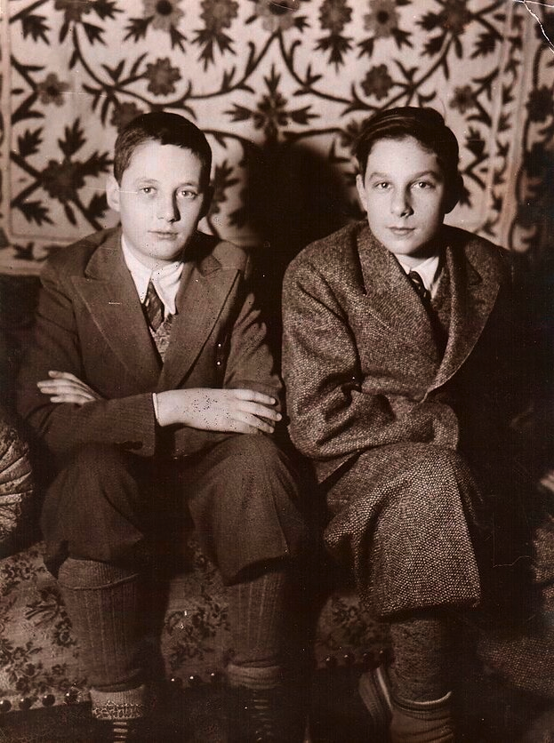 Augustinas Savickas (1919–2012) and his older brother Algirdas Savickis (1917–1943)